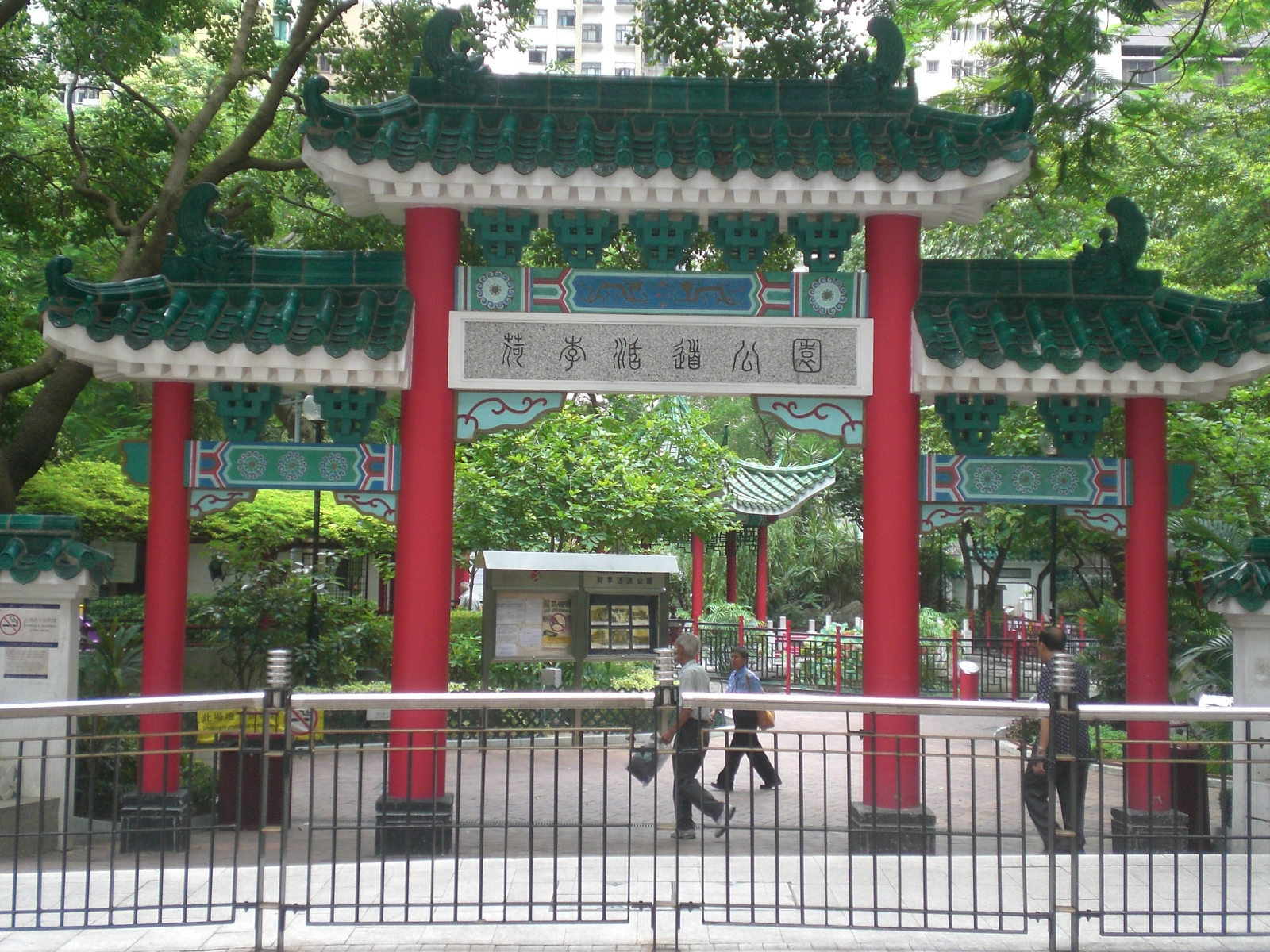 上環荷李活道公園正門